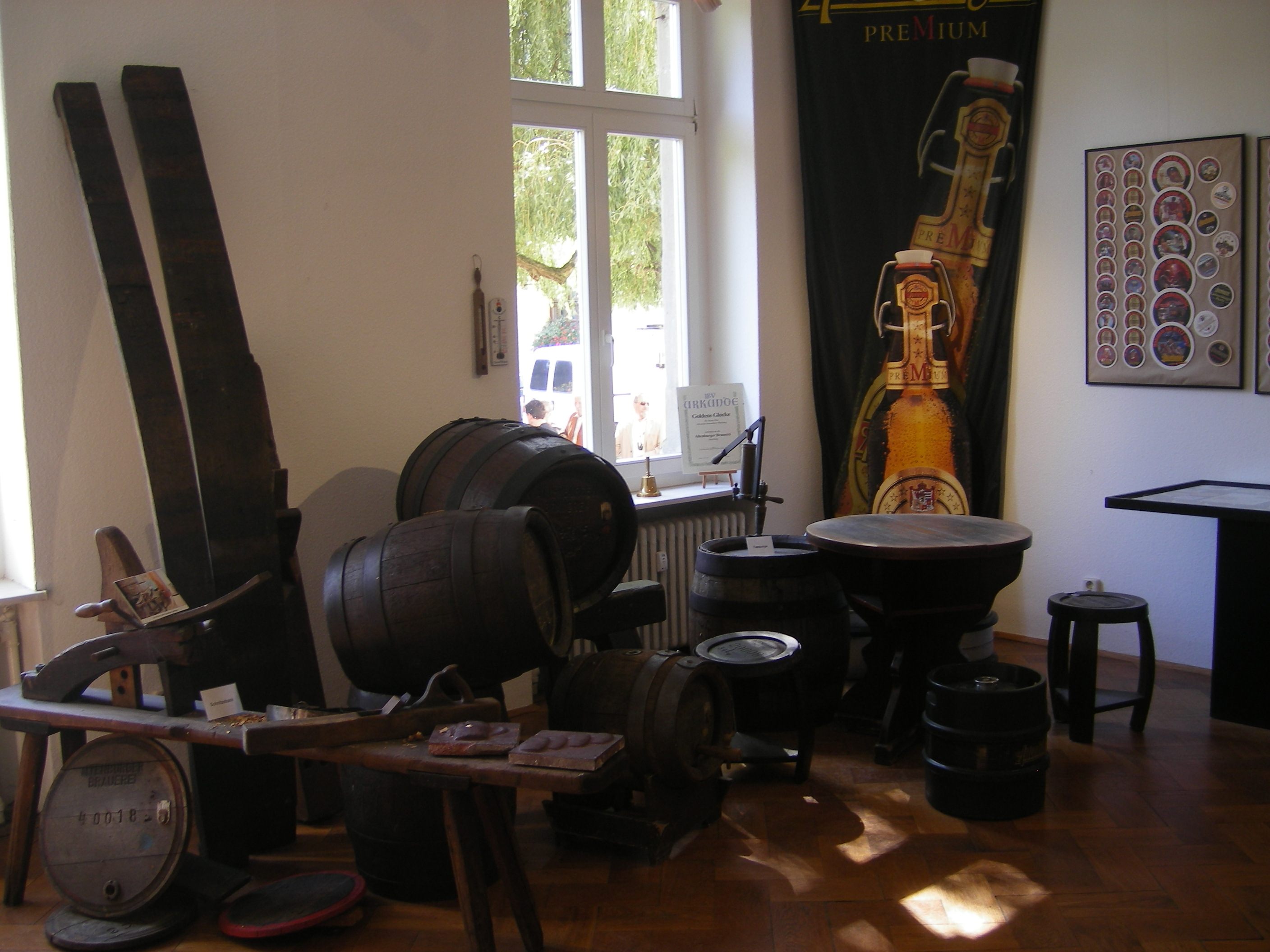 Brewery-museum in Altenburg/Thuringia (Germany) Brauereimuseum der Erlebnisbrauerei Altenburg in Ostthüringen